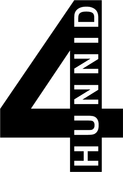 Logo for w:4Hunnid Records